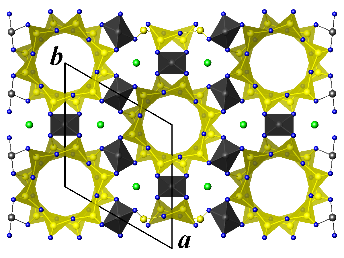 Crystal structure of indialite. Green: magnesium atoms, blue: oxygen atoms, yellow: mostly silicon atoms, gray: mostly aluminium atoms.